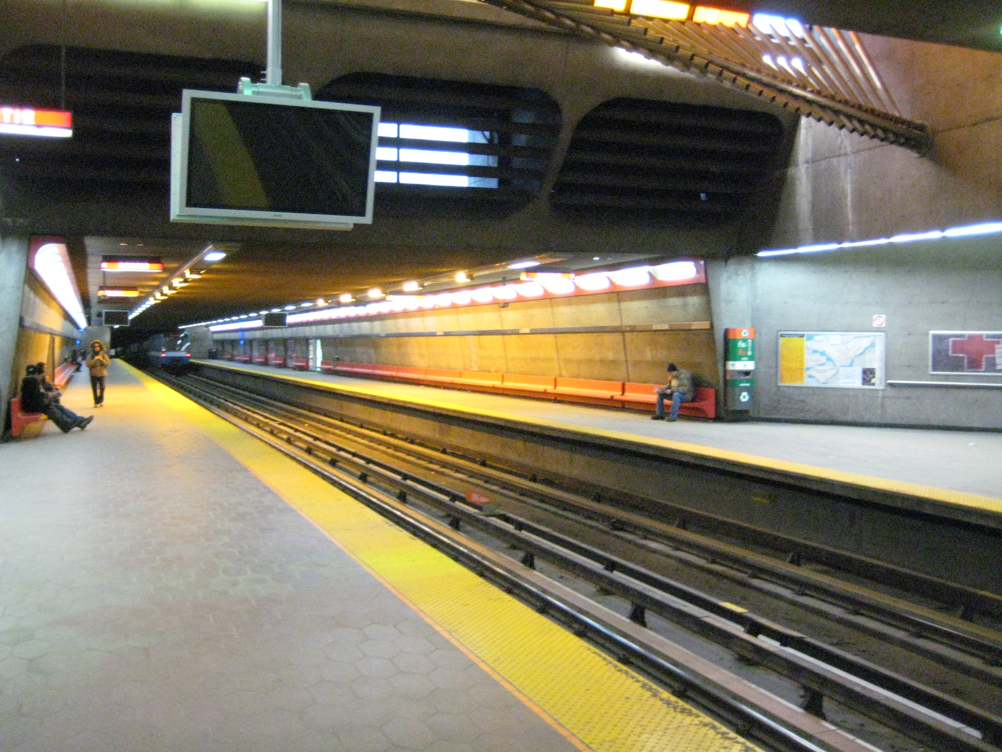 Vendôme Station, Montreal Metro